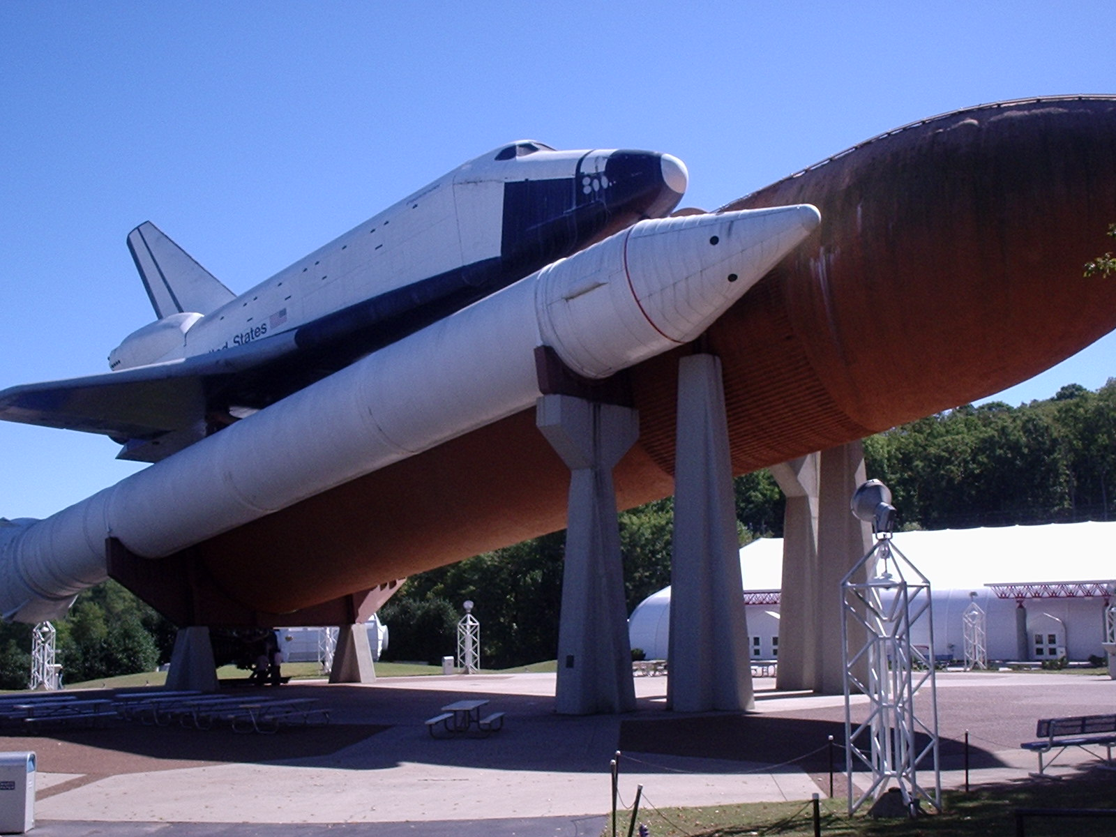 This is a space shuttle model situated in the rocket park at the US Space and Rocket Center in Huntsville, Alabama. The photo was taken by me in October 2005, Michael Fallows.